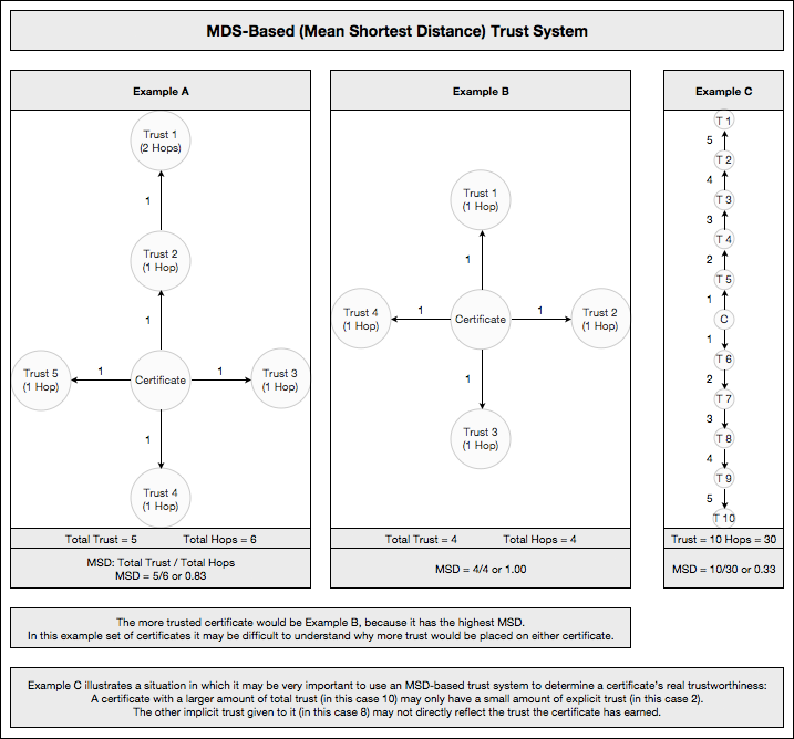 This is a simple explanation of MSD-based (Mean Shortest Distance) Trust, a concept used in public key cryptography.